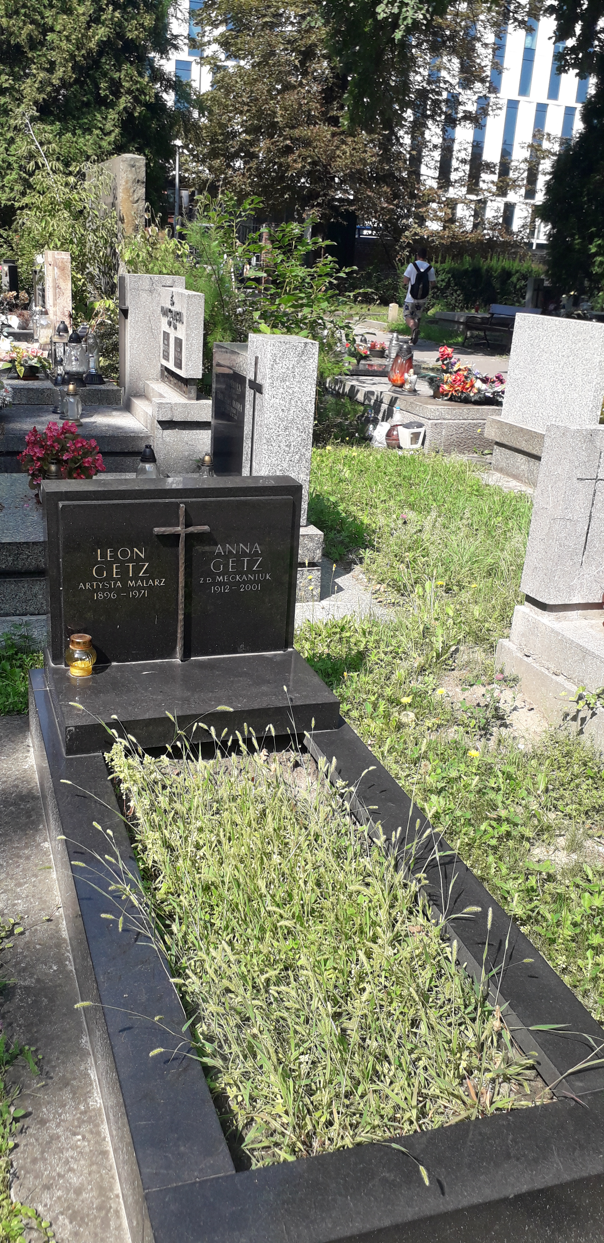 Leon Getz grave on Rakowicki Cemetery